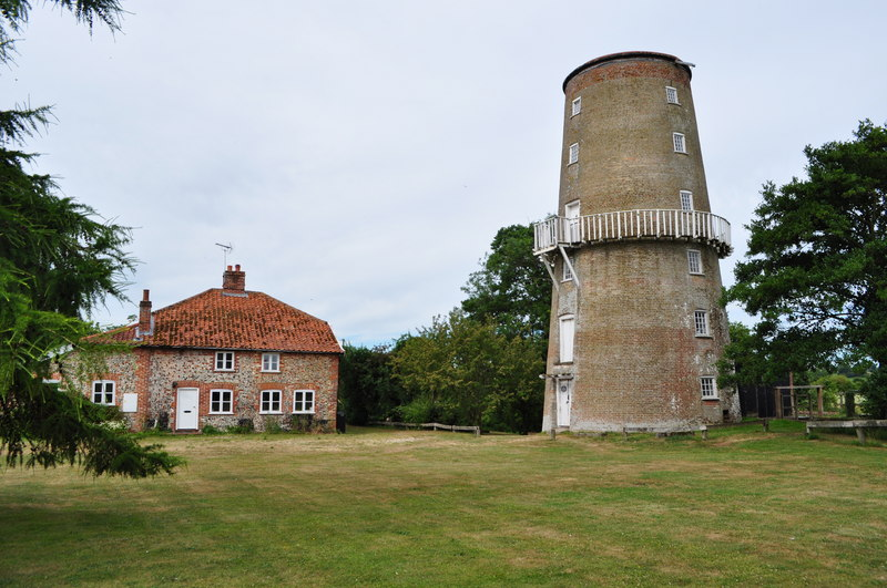 Little Cressingham Wind/Watermill, near to Little Cressingham, Norfolk, Great Britain. A view from the back of the wind/water mill, one of two in Norfolk. The partly restored mill is open to visitors (exterior only). The water part is on the other side TF8700 : Waterwheel at Little Cressingham. It is hoped to have the sails and machinery fully working one day.